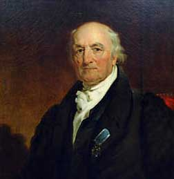 Richard Varick (1753-1831)